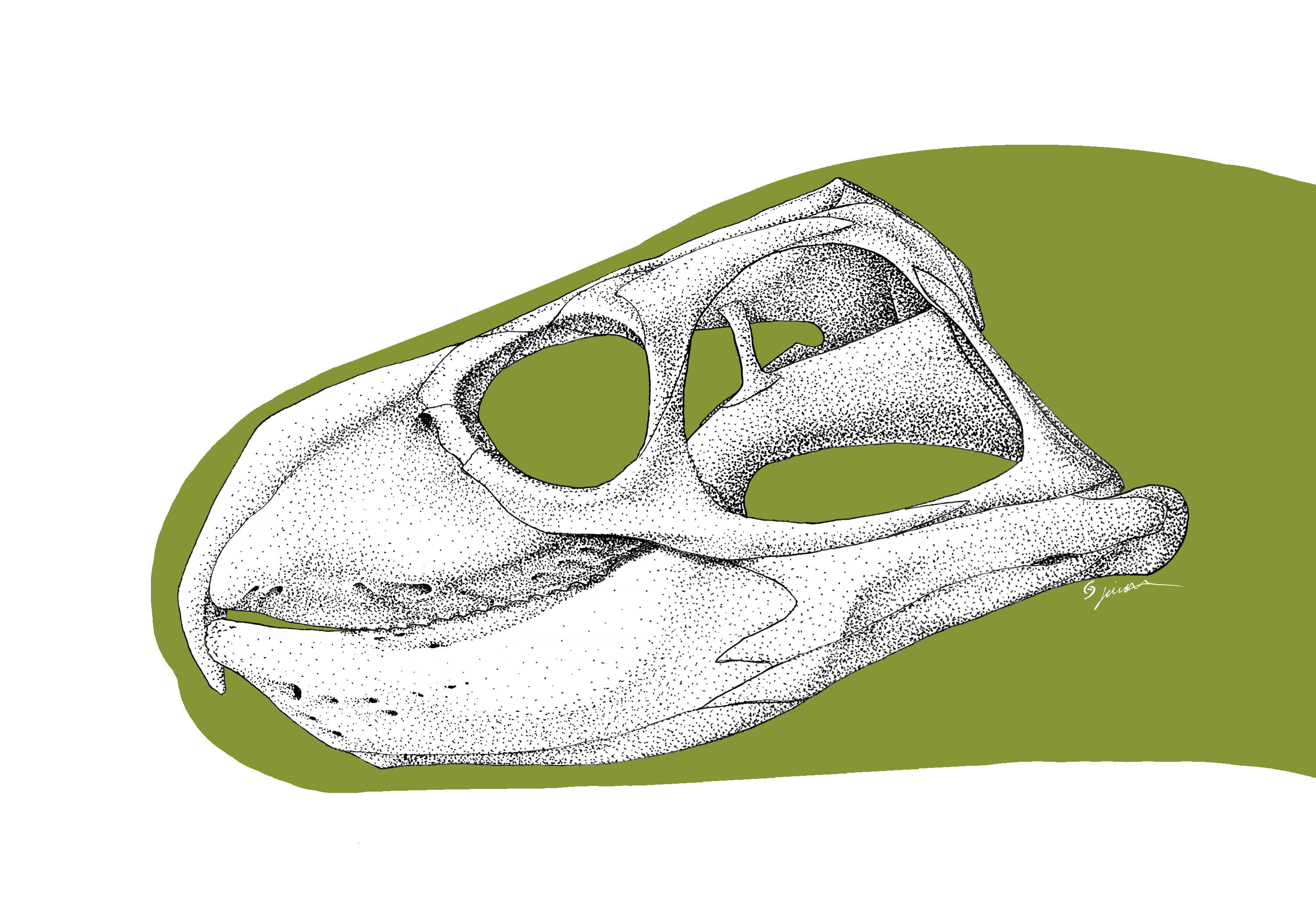 Skeletal reconstruction of the skull of Rhynchosaurus articeps.